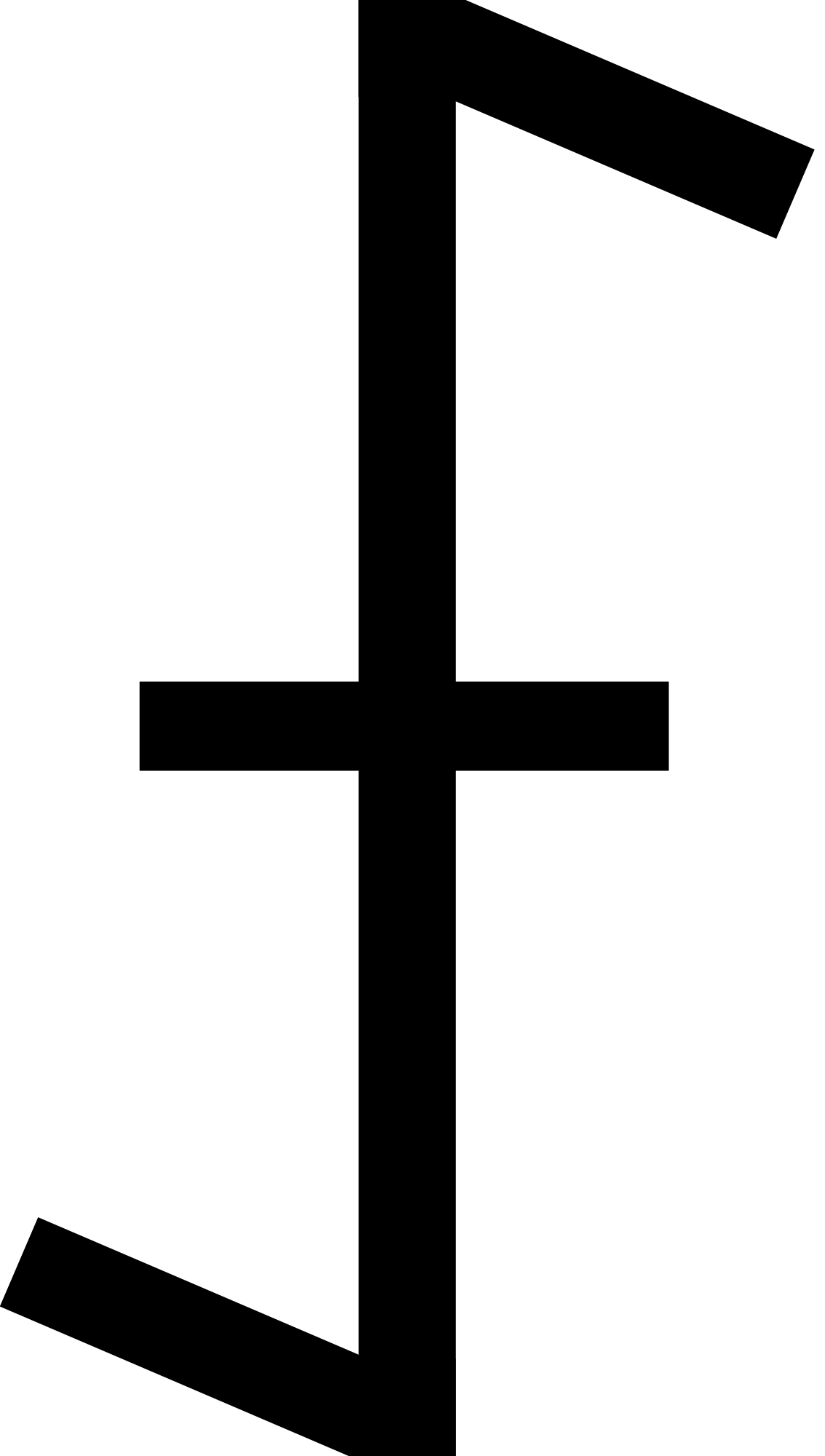 Vertical wolfsangel